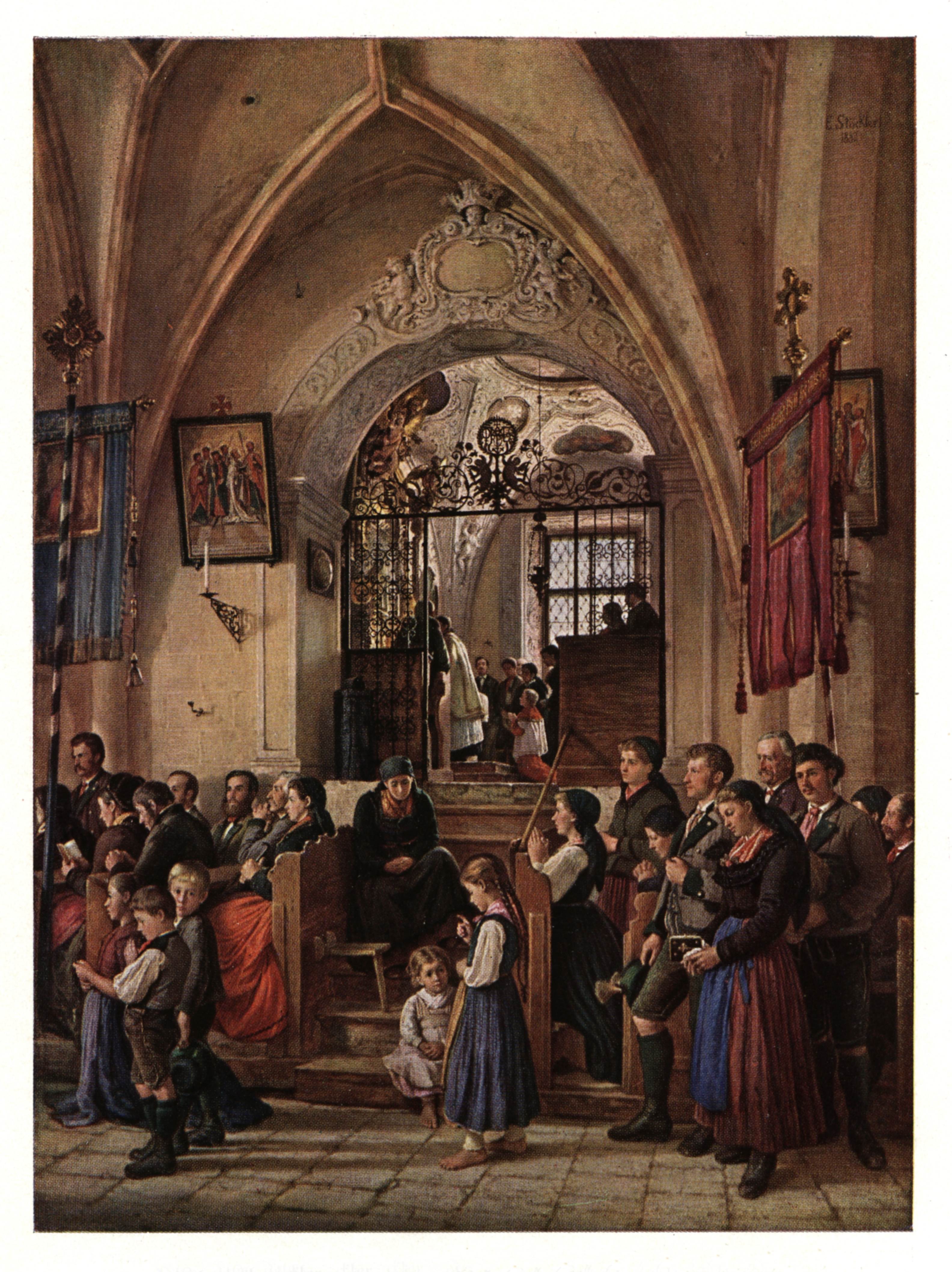 Steirisches Trachtenbuch - Mautner-Geramb 1935 Traditional Costumes from Ennstal, Styria Scanprojekt Bundesdenkmalamt Österreich This scan or this PDF-file was created within the Austrian Wikipedia-project Denkmalpflege Österreich (German only) supported by Wikimedia Germany and Wikimedia Austria as part of the Wikipedia community-project to collect public domain documents from the library of the Heritage Monuments Board of Austria. This document describes or depicts an object which is located in Austria today. Texts are written in German language. Send requests for uncompressed scans to Hubertl. This work is in the public domain in its country of origin and other countries and areas where the copyright term is the author's life plus 100 years or fewer. You must also include a United States public domain tag to indicate why this work is in the public domain in the United States. This file has been identified as being free of known restrictions under copyright law, including all related and neighboring rights.